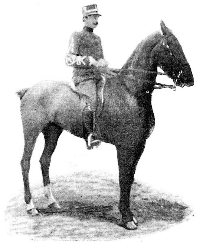 Constant van Langhendock, winner in the equestrian longjump at the 1900 Olympic Games photography, reproduction, no restrictions on use